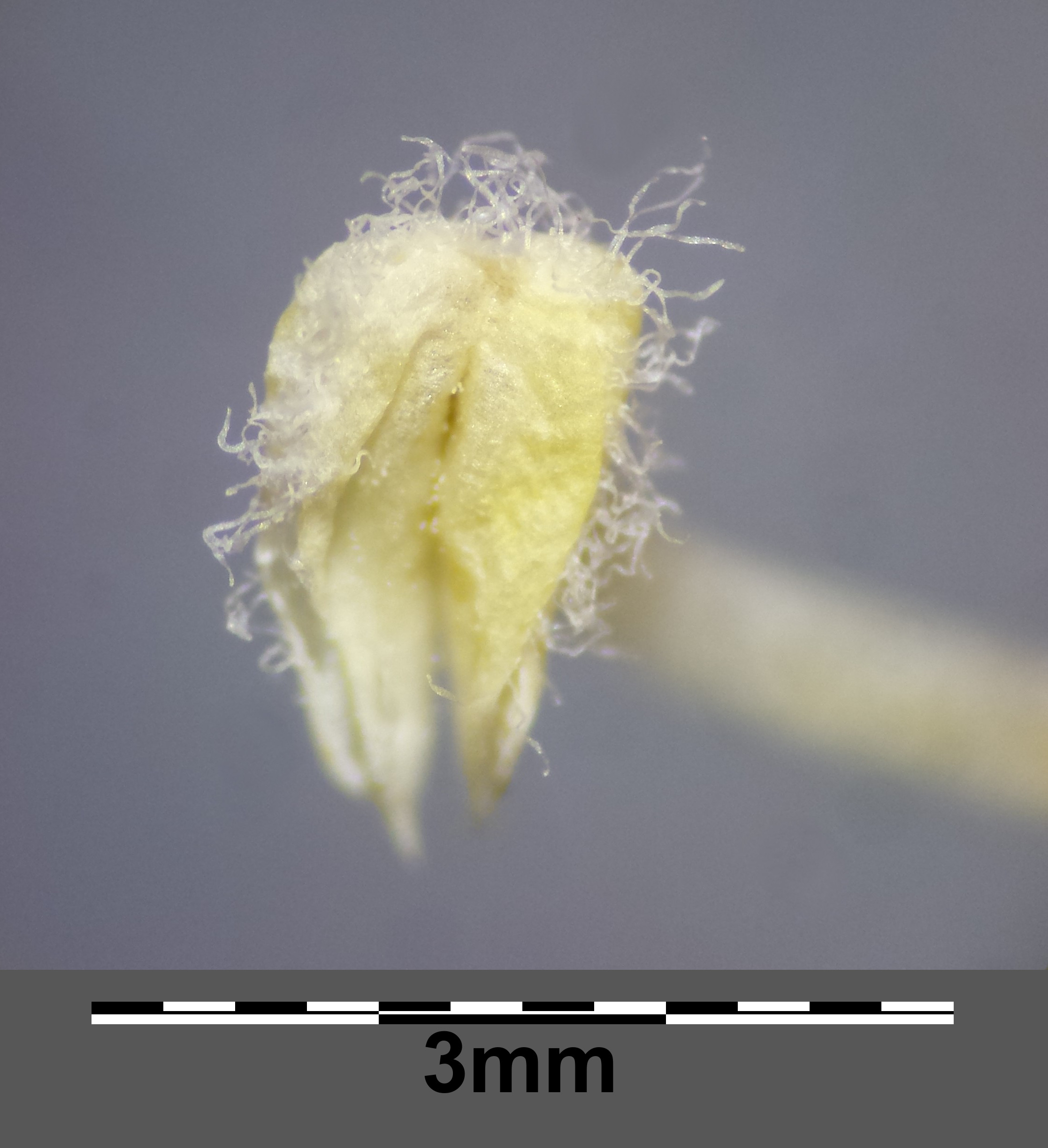 Hairy anther Taxonym: Phelipanche arenaria ss Fischer et al. EfÖLS 2008 ISBN 978-3-85474-187-9 Location: next to Thürneustift, district Krems-Land, Lower Austria - ca. 375 m a.s.l. Habitat: slope